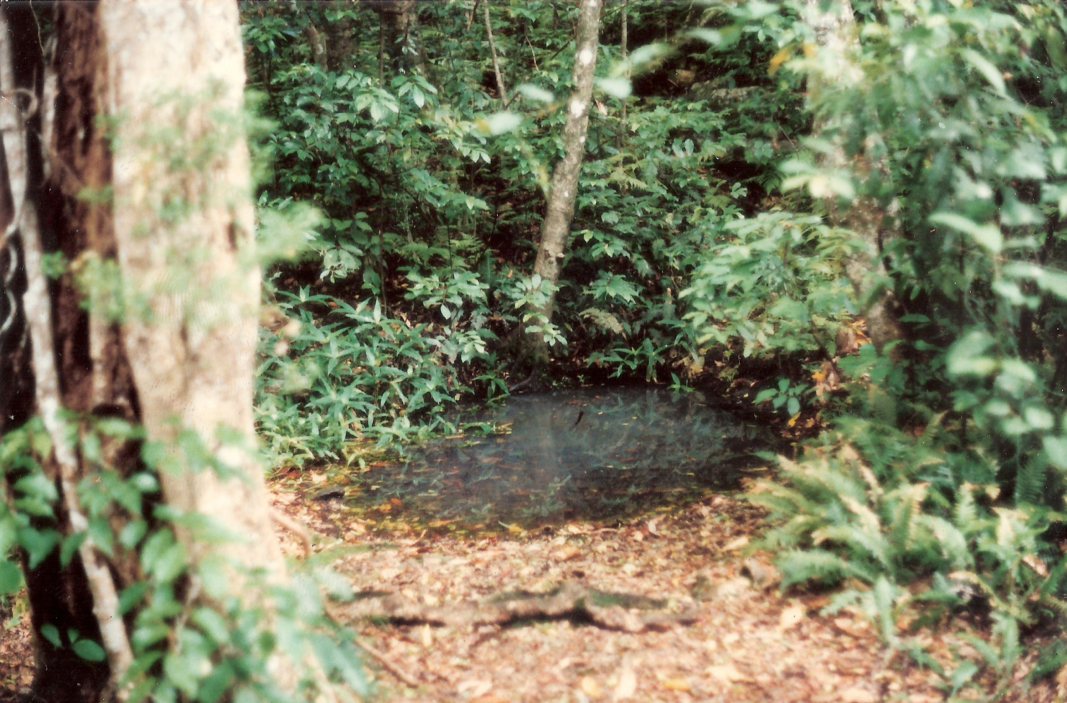 Scan of a photo of Moss's Well at Spicers Gap, South East Queensland, Australia